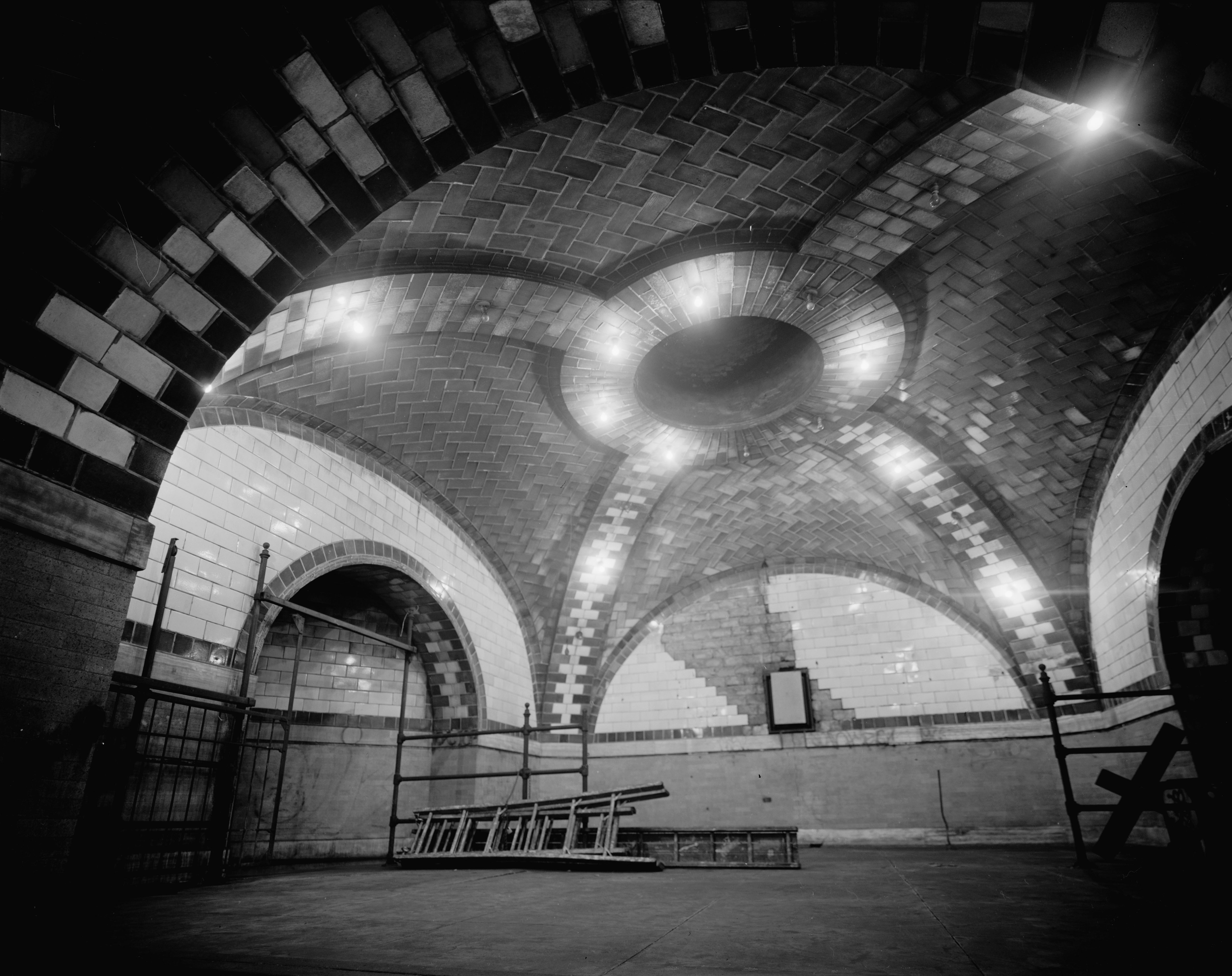 City Hall station fare control area.